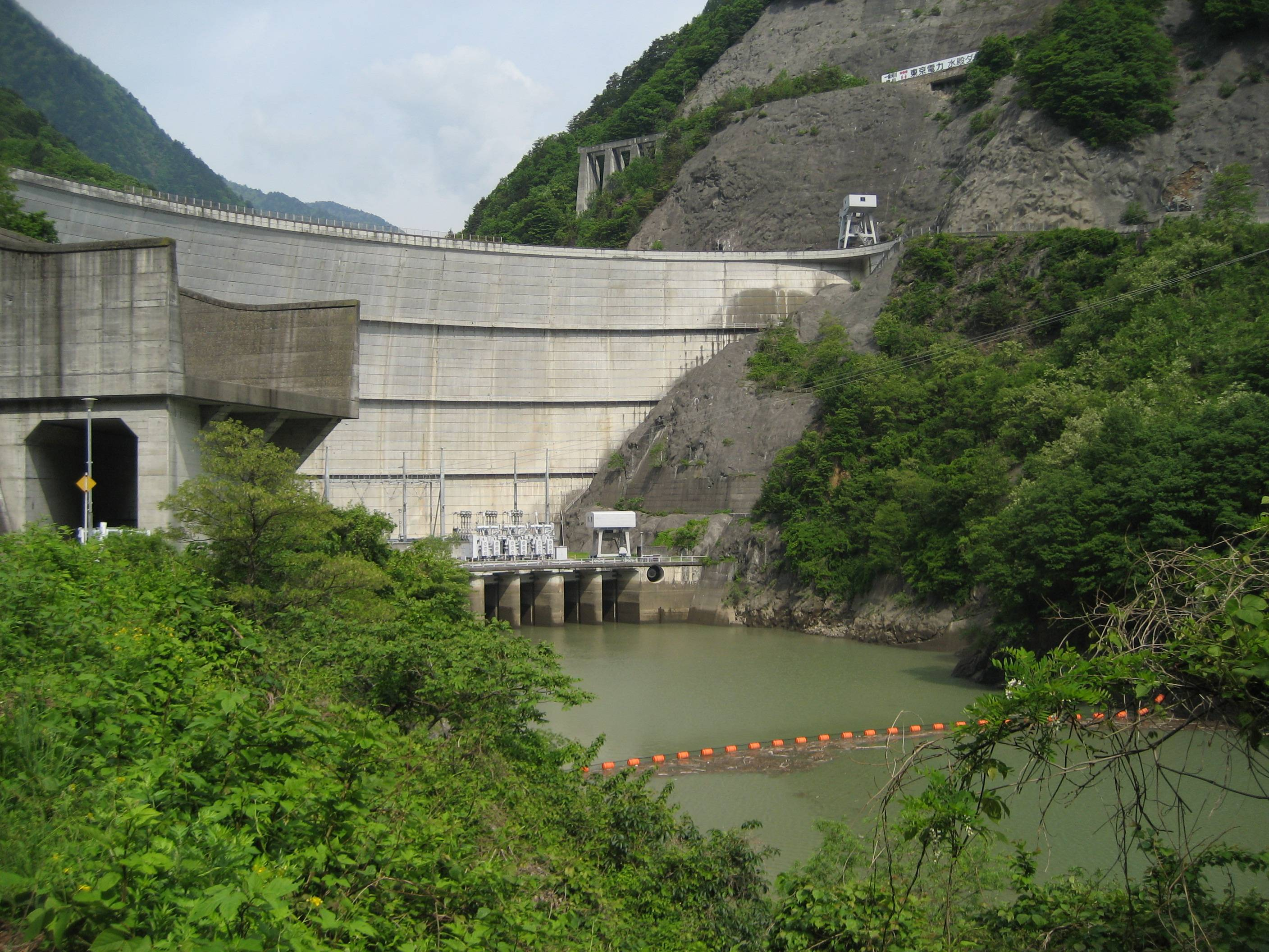 Midono Dam (水殿ダム) is a dam in Matsumoto city, Nagano prefecture, Japan.